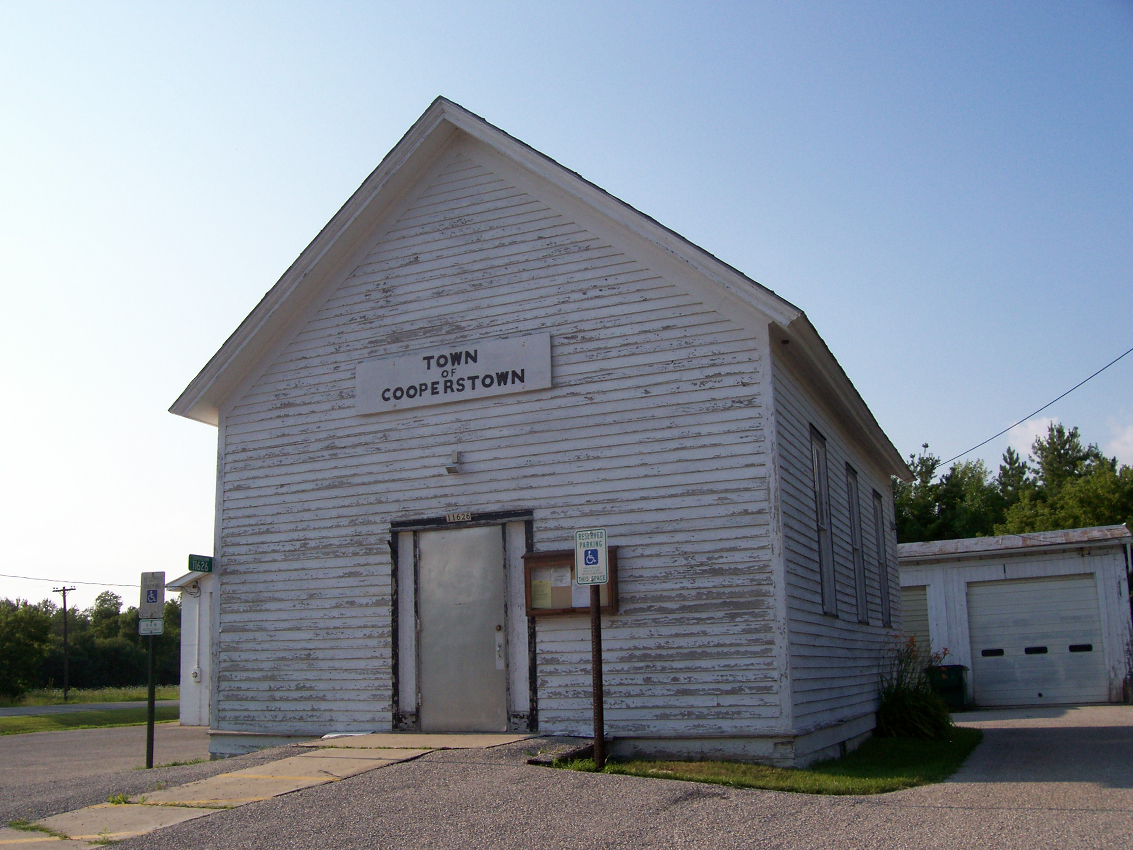 Looking north at the town hall for Cooperstown, Wisconsin, USA.